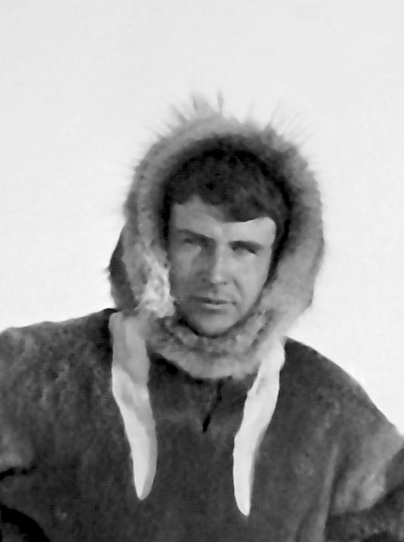 Ernest deKoven Leffingwell. This version extensively cropped to make a head shot.